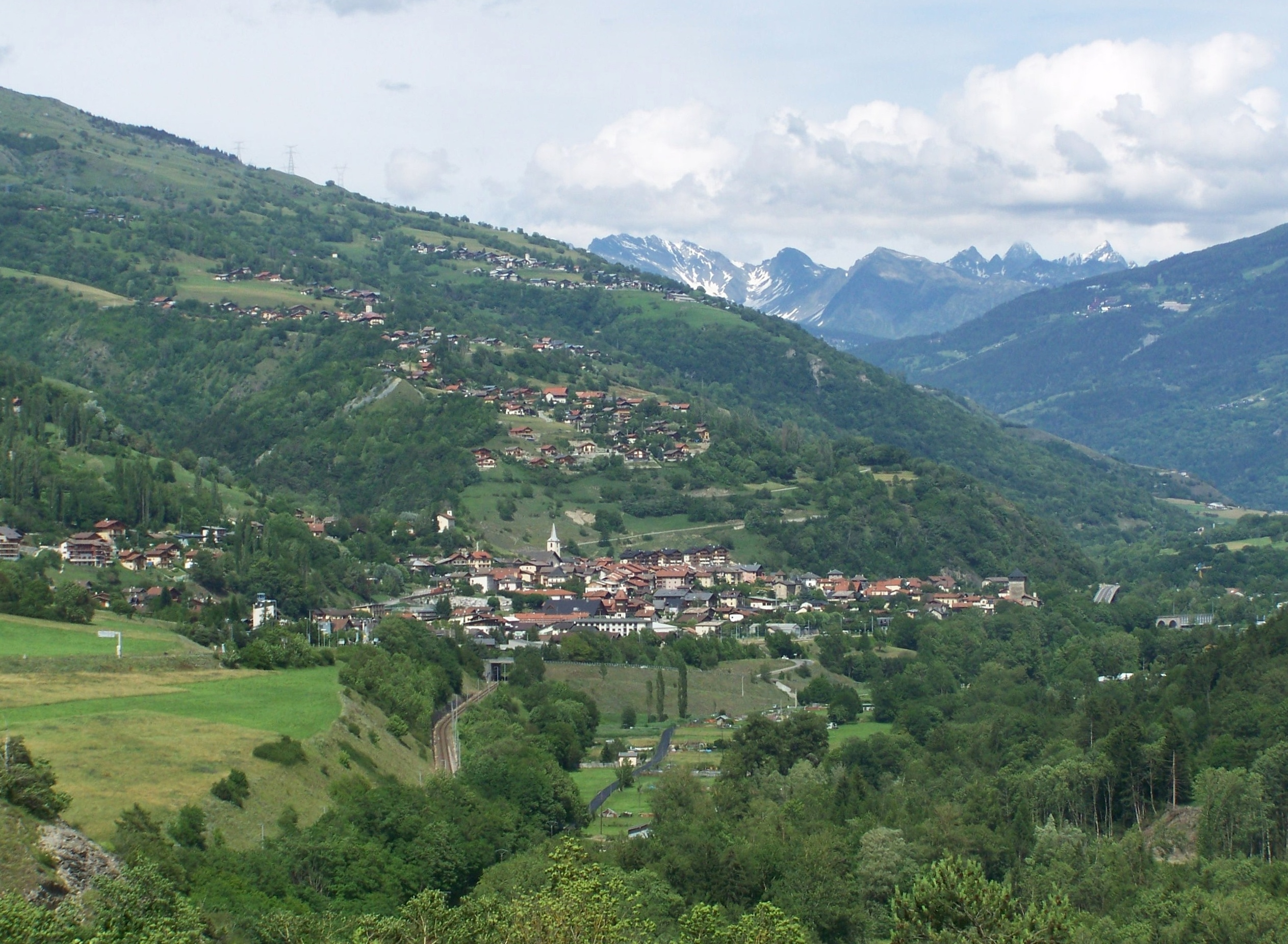 Sight of French communes of Aime (the biggest one in the center) and La Côte d'Aime (village seen above) in Savoie, France.